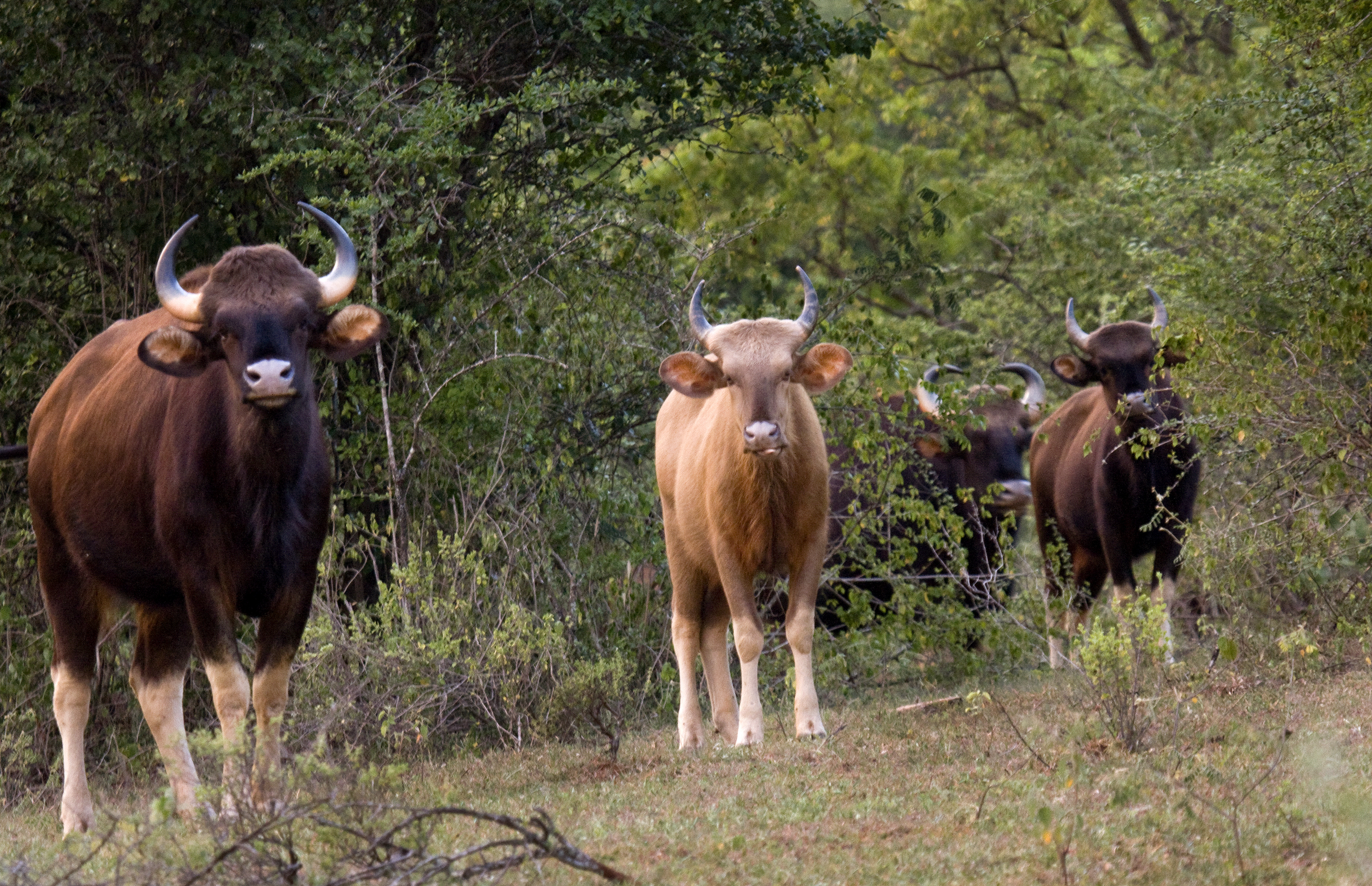 Manjampatti white bison or Albino Indian bison (Bos gaurus), Albino bisons are very rare. This photograph is taken from Chinnar Wildlife Sanctuary.